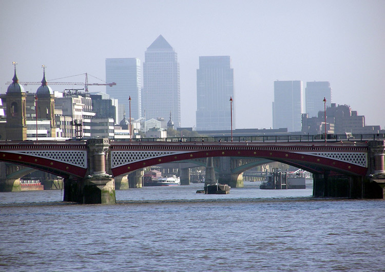 Blackfriars Bridge, seen from Waterloo Bridge. Beyond there is a glimpse of the green-edged Southwark Bridge. In the hazy distance are the towers of Canary Wharf, dominated by the Canary Wharf Tower (1 Canada Square). Taken by Adrian Pingstone in November 2004 and released to the public domain.